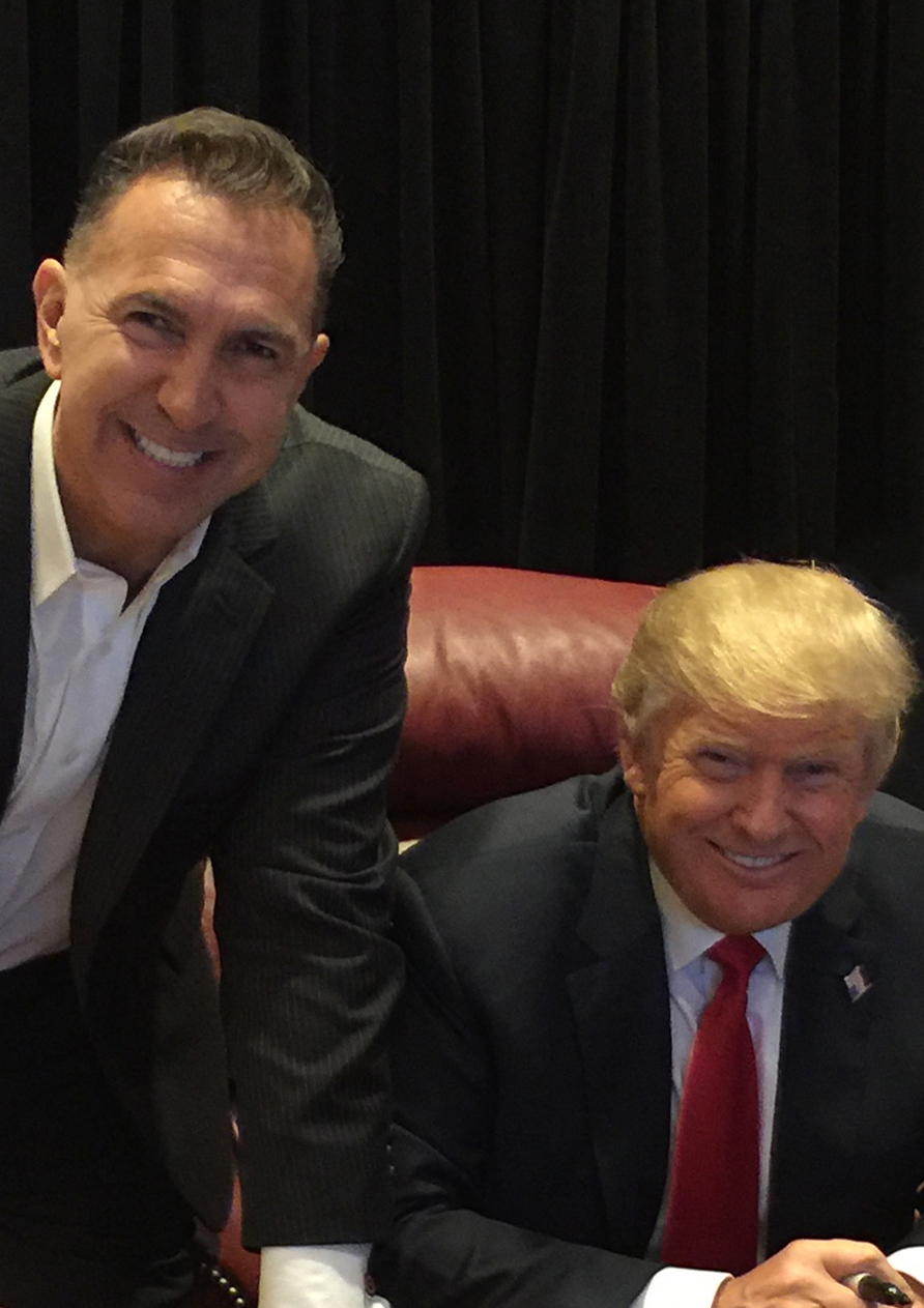 Paolo Tiramani and Donald Trump